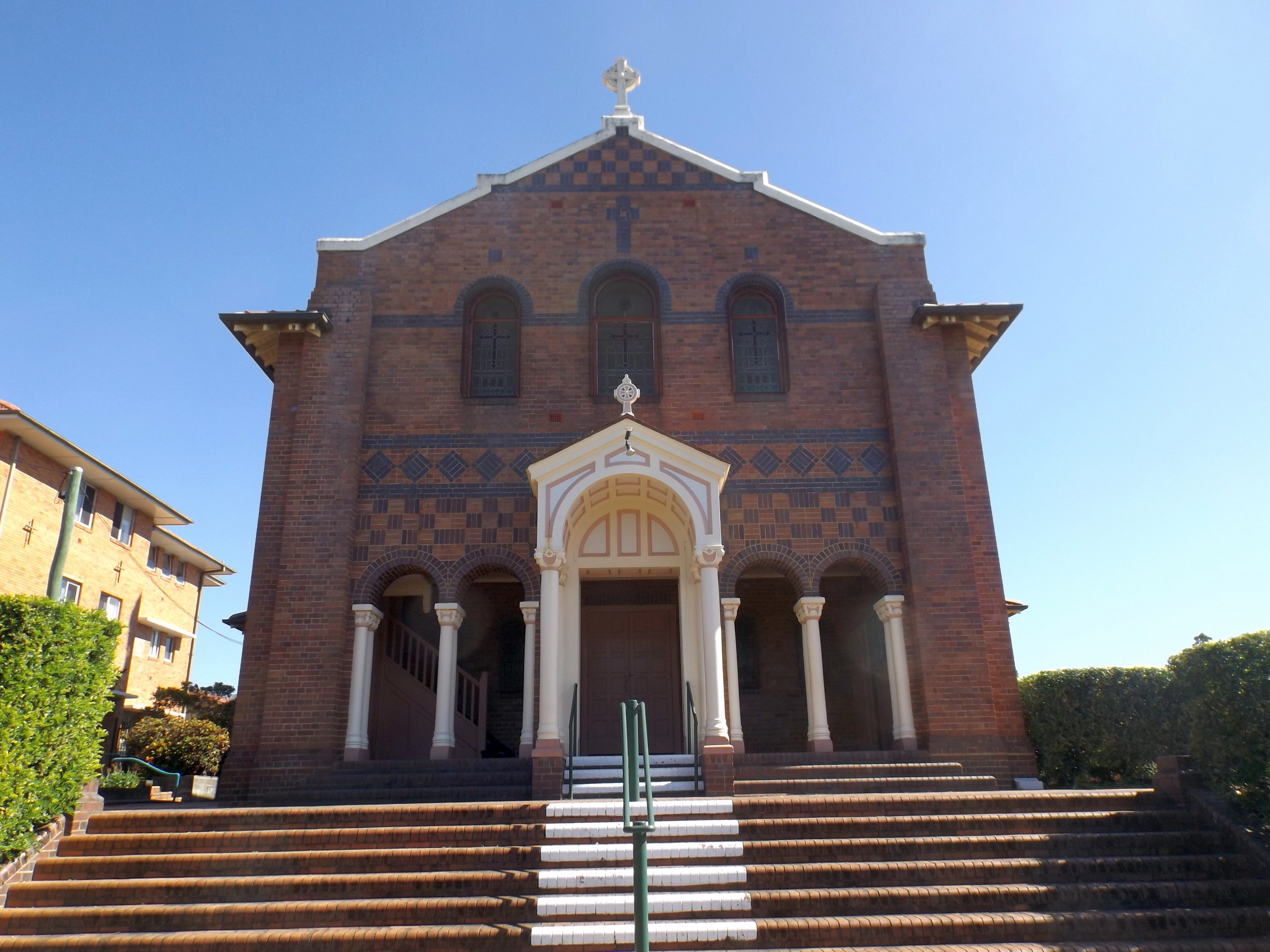 Photo of the entrance to the Corpus Christi Church at Nundah, Brisbane, Queensland, Australia.